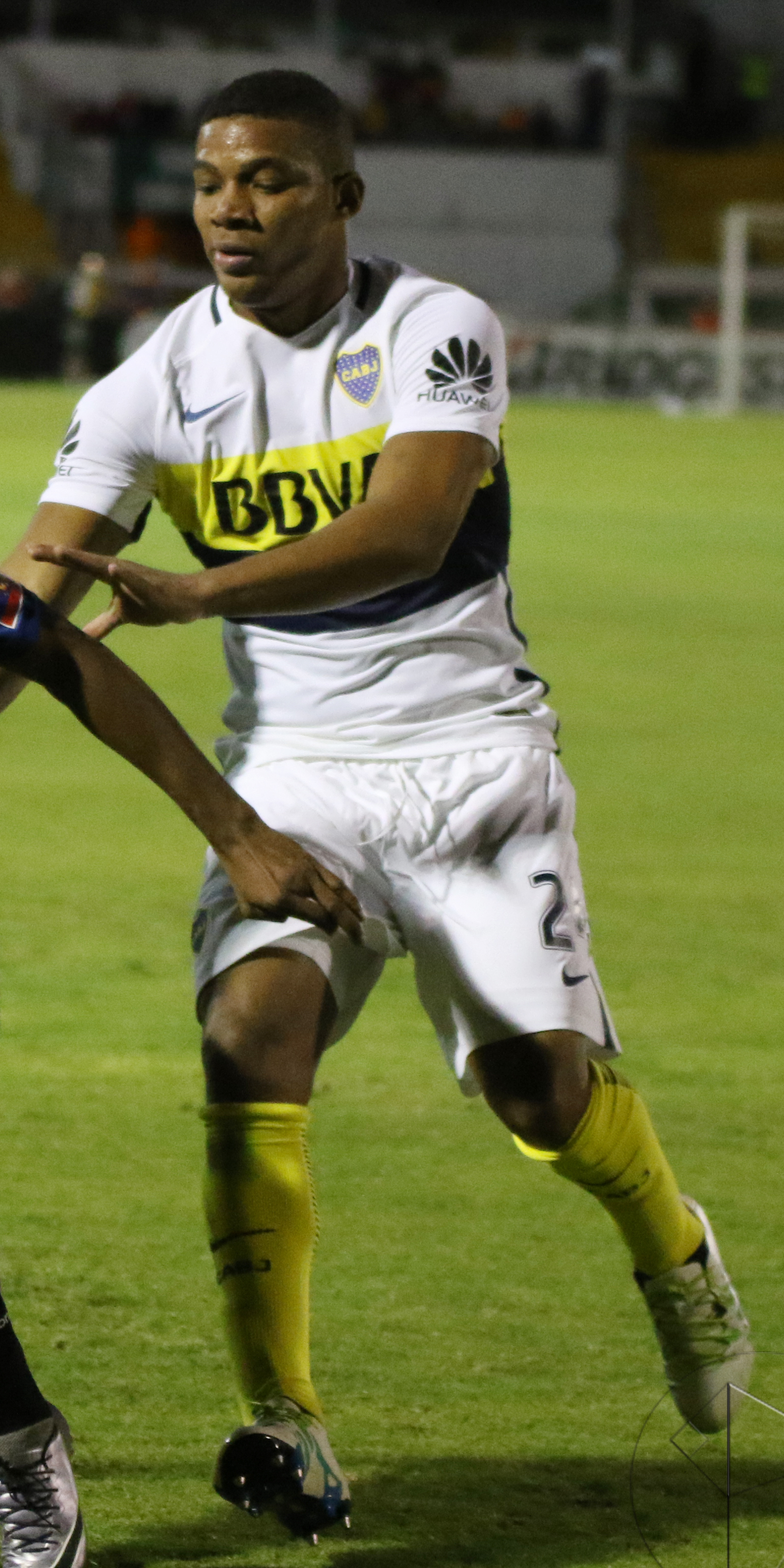 Frank Fabra jugando para Boca Juniors contra Independiente del Valle en Ecuador.